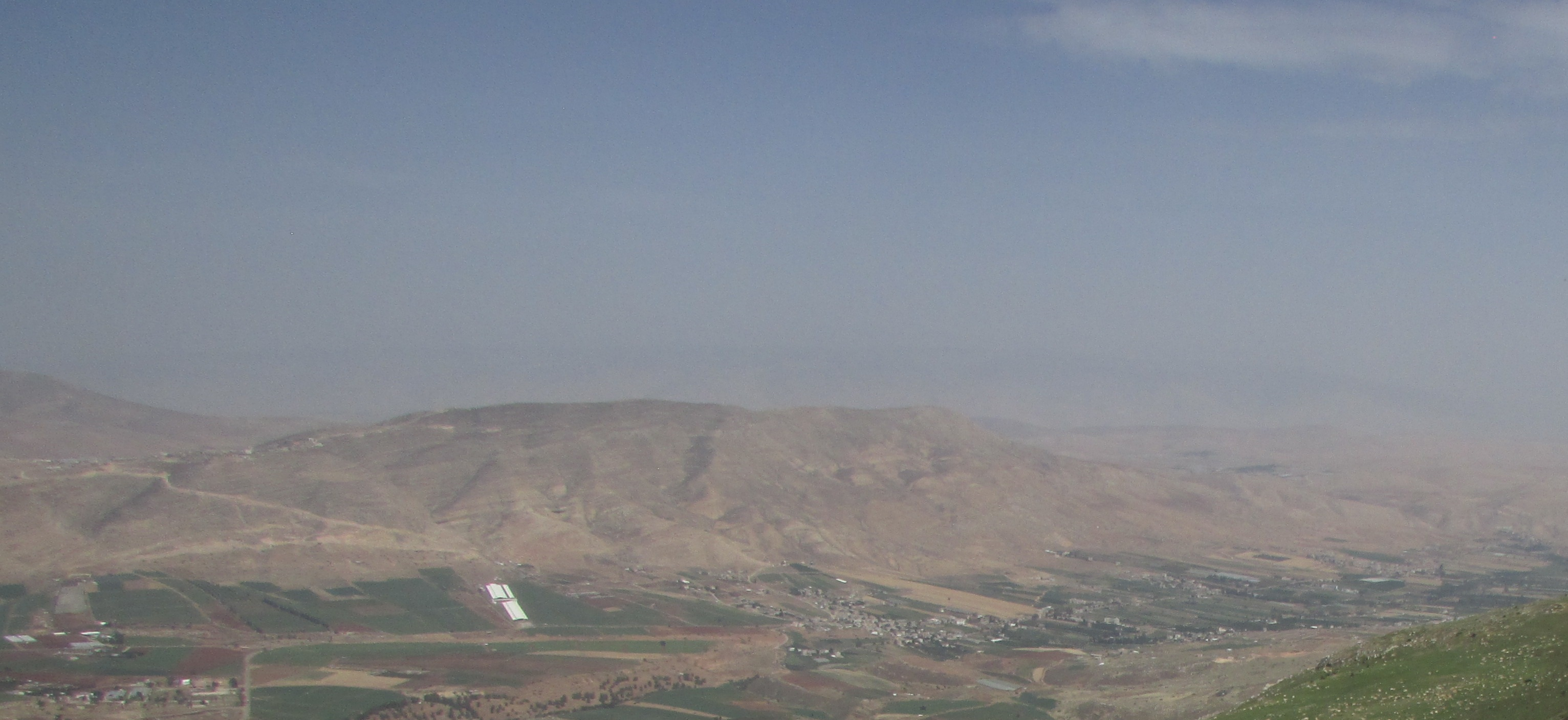 Mount Tammun from Har Kabir